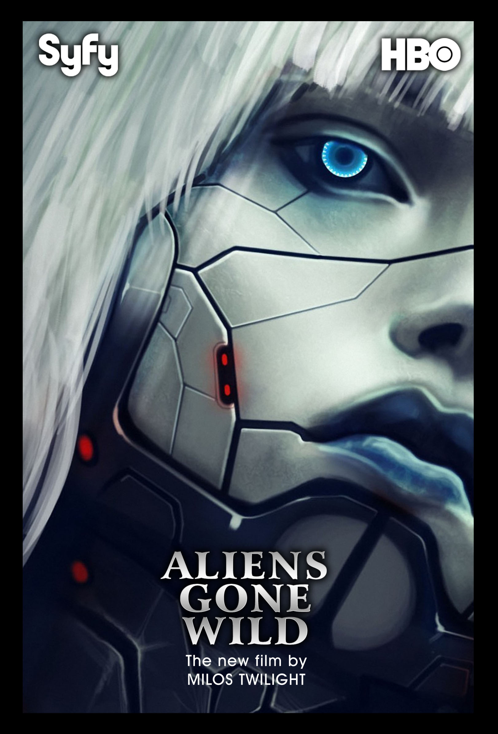 Theatrical release poster of the Film "Aliens Gone Wild", directed by Milos Twilight, produced by Twilight Films.